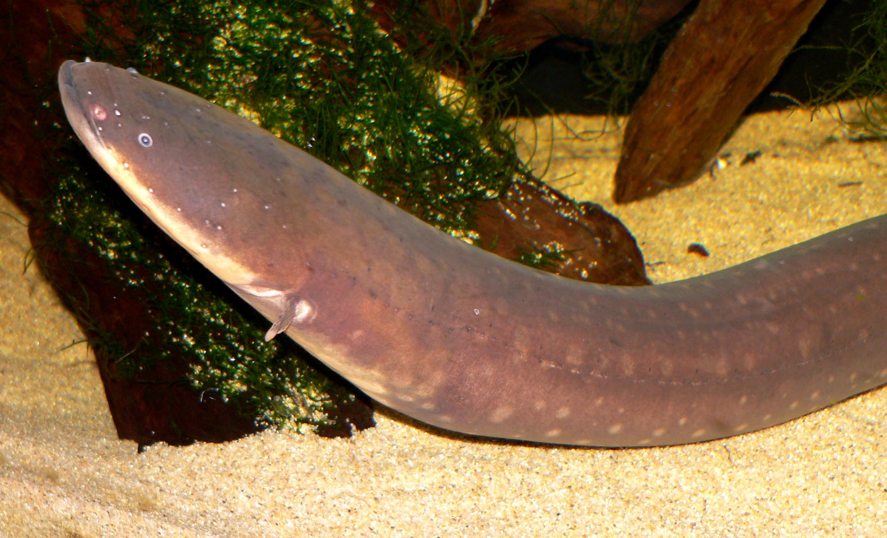 Photo of Electrophorus electricus (electric eel) at the Steinhart Aquarium in San Francisco